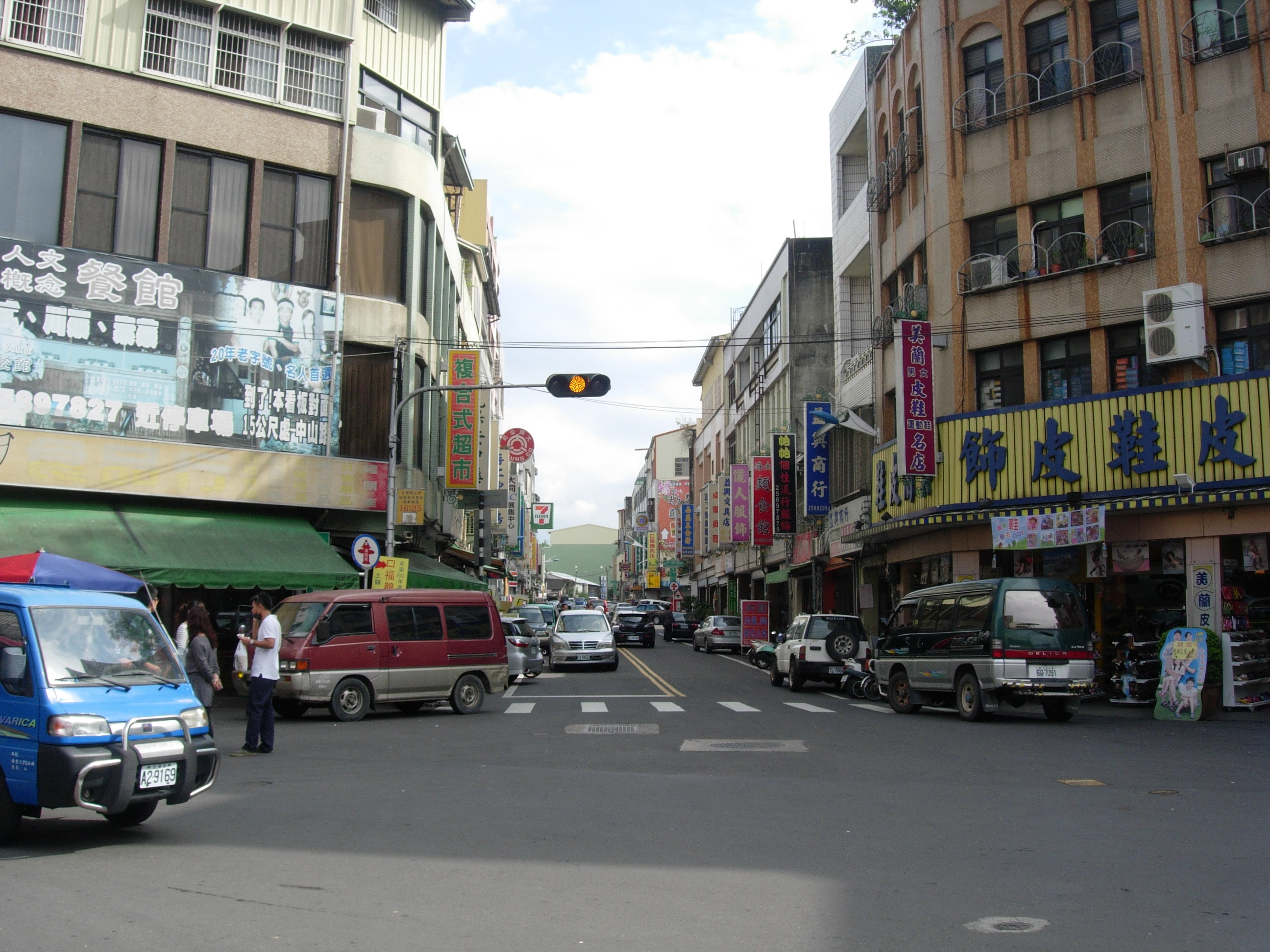 Jhuolan Jhongshan Road